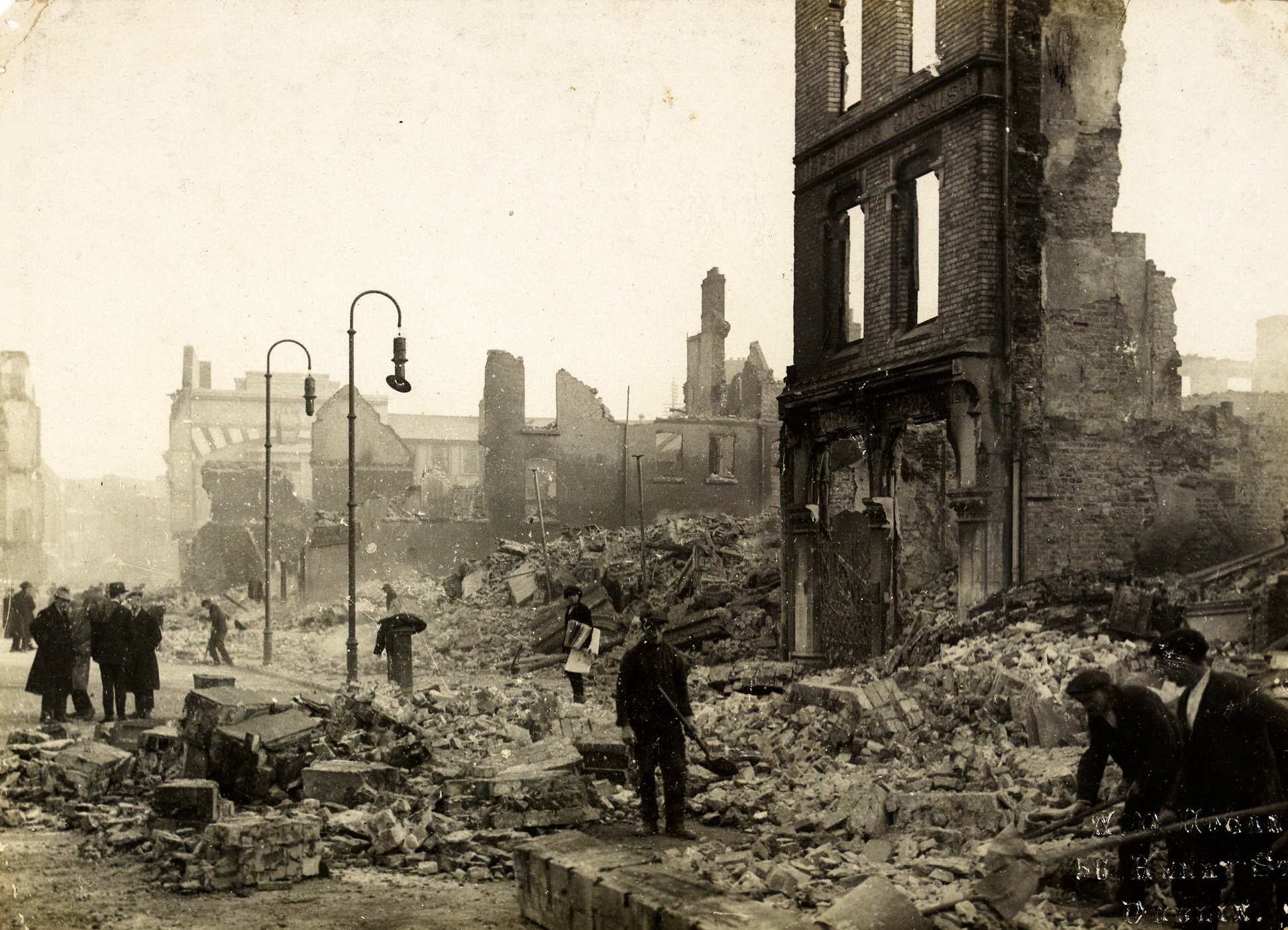 St Patrick's Street in Cork, Ireland on (or around) 14 December 1920. The image captures the aftermath of what's known as the Burning of Cork. This event occurred on 11-12 December 1920 during the Irish War of Independence. The primary subject are destroyed buildings in the area from Cook Street to Robert street to Winthrop Street (off Patrick street)in Cork. To the right foreground are workers in clean-up efforts. The prominent building facade (right/middle-ground) has visible stonework signage which reads: Pharmaceutical & Dispensing Chemist. This building was Sunner's chemist shop, #31 Patrick Street. Immediately to its left (behind the arched lamps) was where #29/30 Patrick Street stood. This was the Munster Arcade. Photographer: W.D. Hogan Date: Circa Tuesday, 14 December 1920. NLI Ref.: HOGW 153